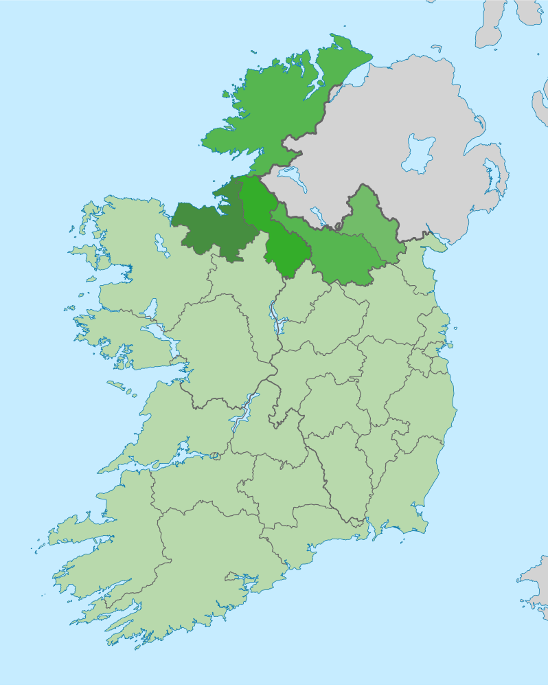 New 2018 Border Region Map